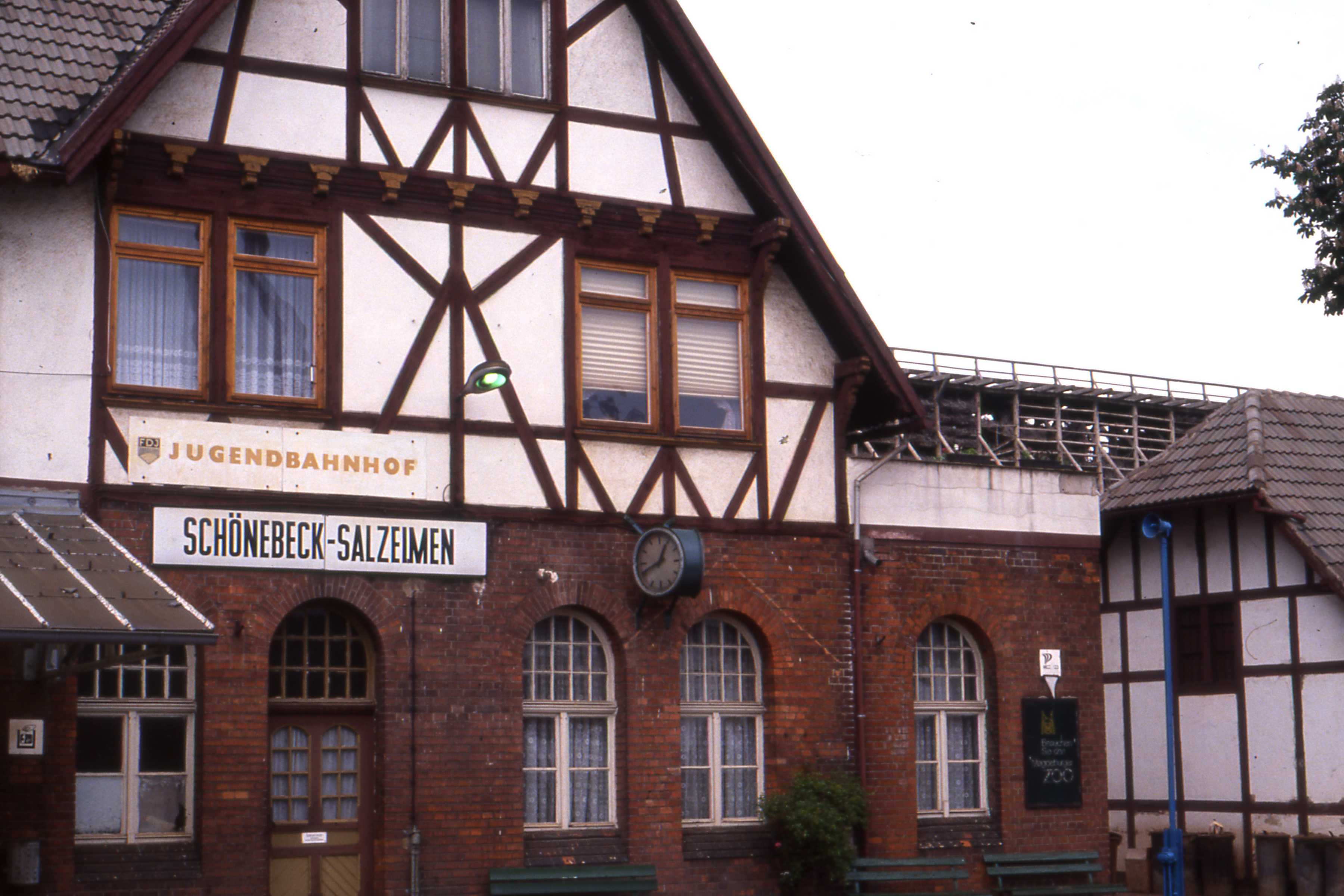 The Freie deutsche Jugend was the official communist youth movement in the GDR. Perhaps it had been santised or was looked after by a FDJ Youth Brigade. Above, to the right, the Gradierwerk of saline infused brushwood at the Volksbad Salzelmen.